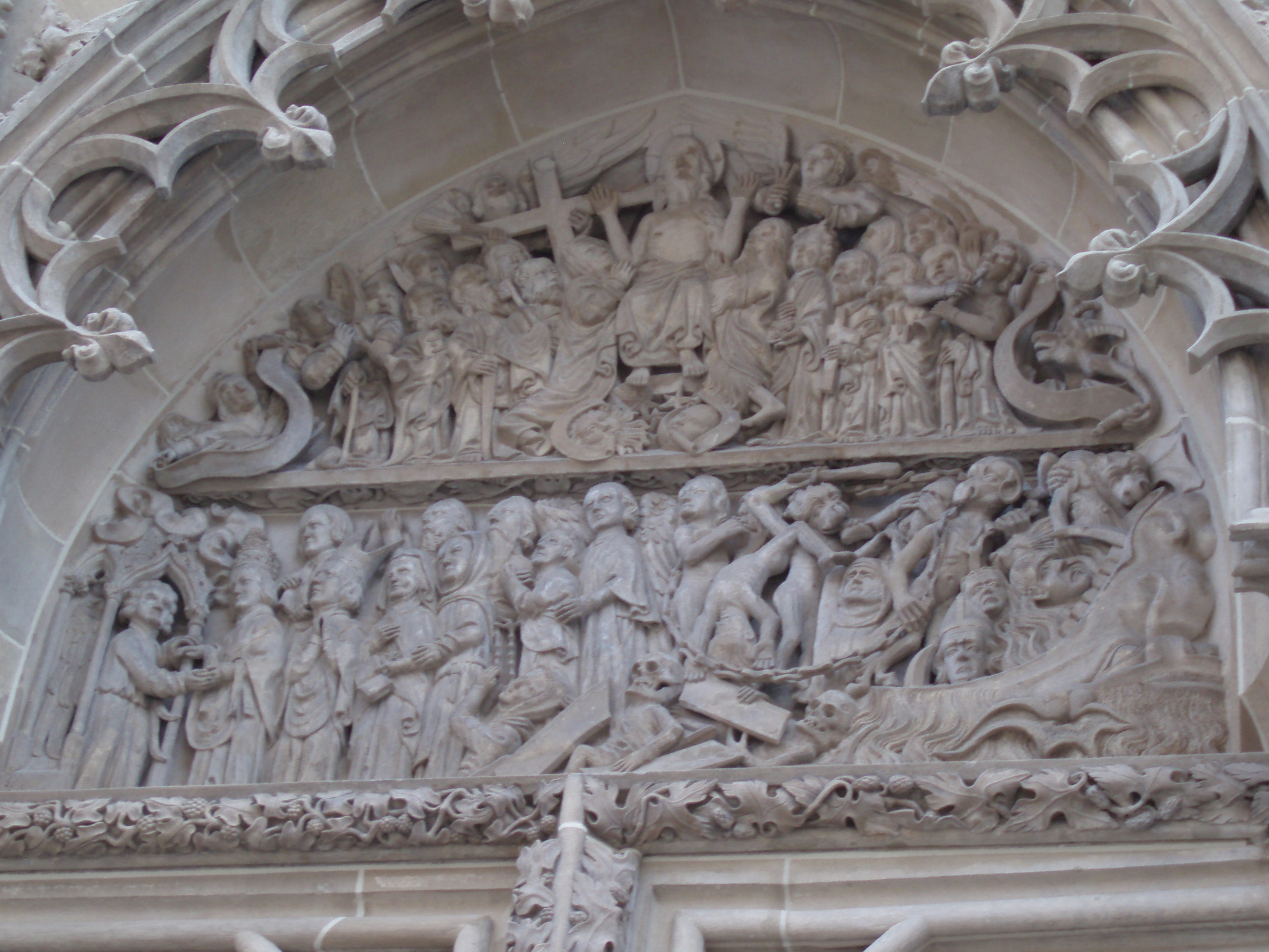 Northern portal of St.Elisabeth Cathedral Košice. Scene The Last Judgment.